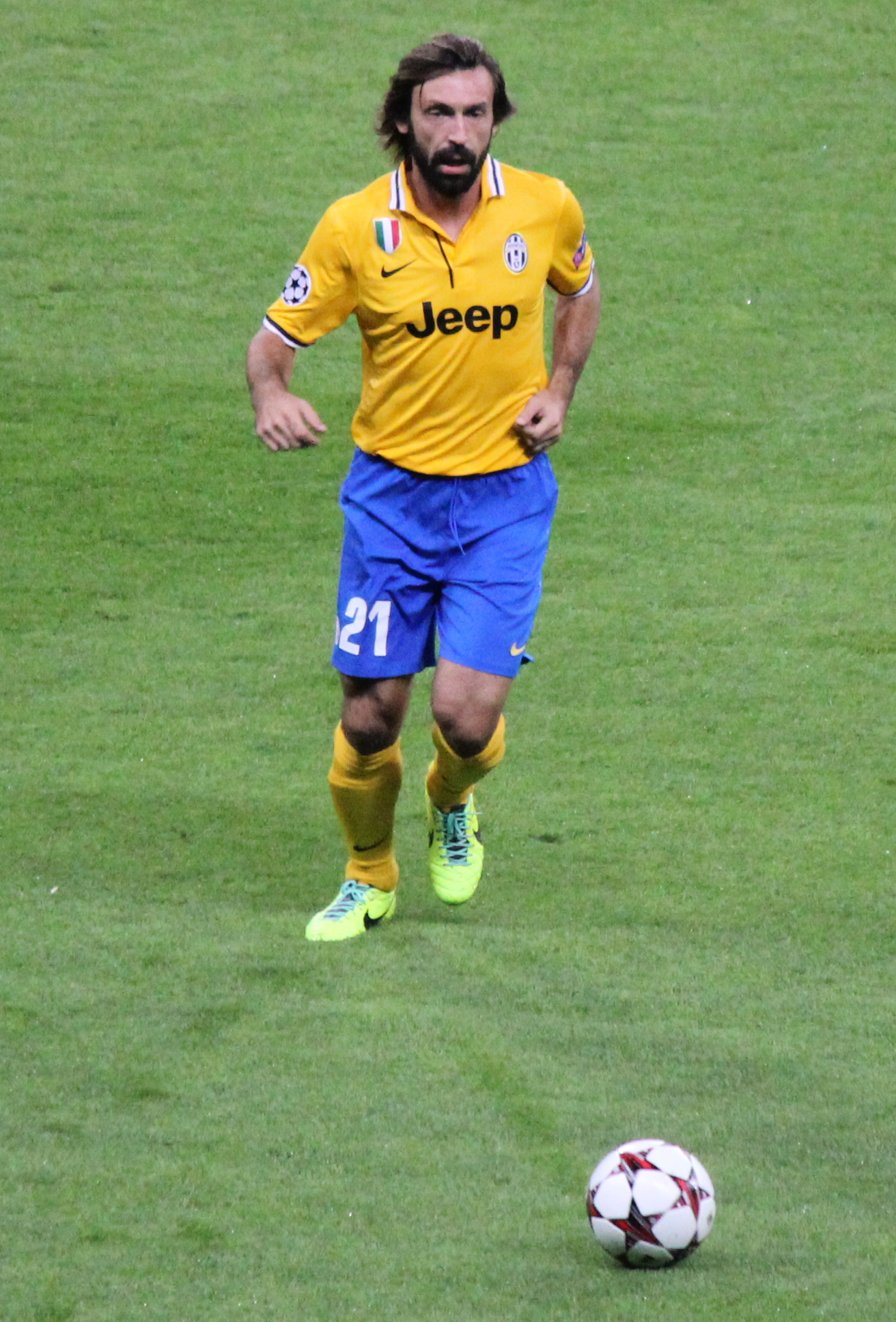 Real Madrid vs Juventus, 24 October 2013 Champions League